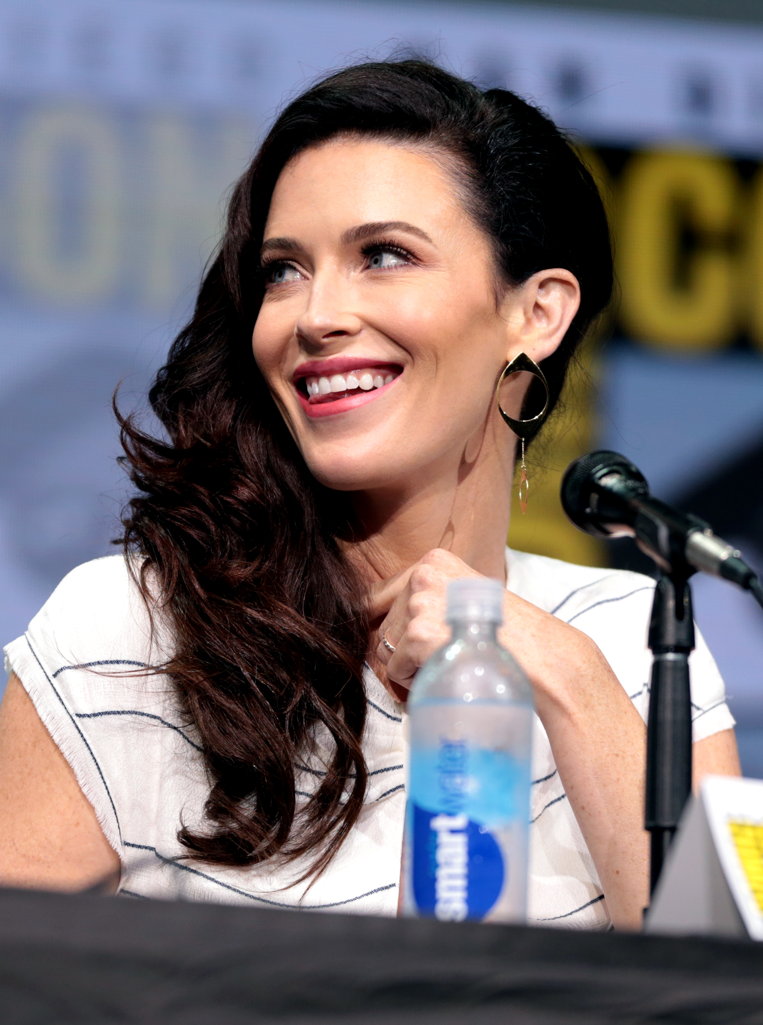 Bridget Regan at San Diego Comic Con 2017